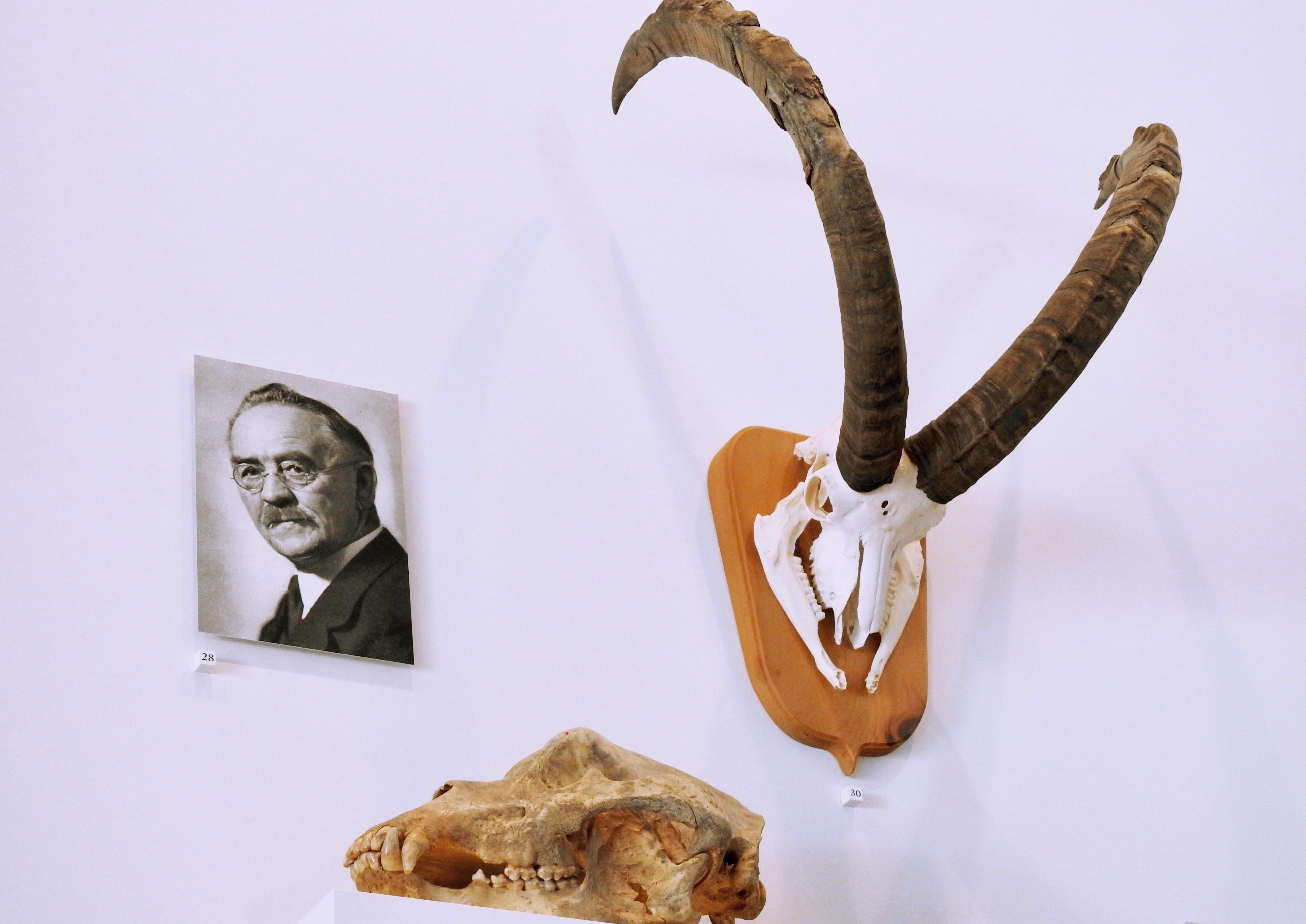 Picture of Emil Bächler with symbols of his work. Nature Museum St.Gallen, Switzerland.